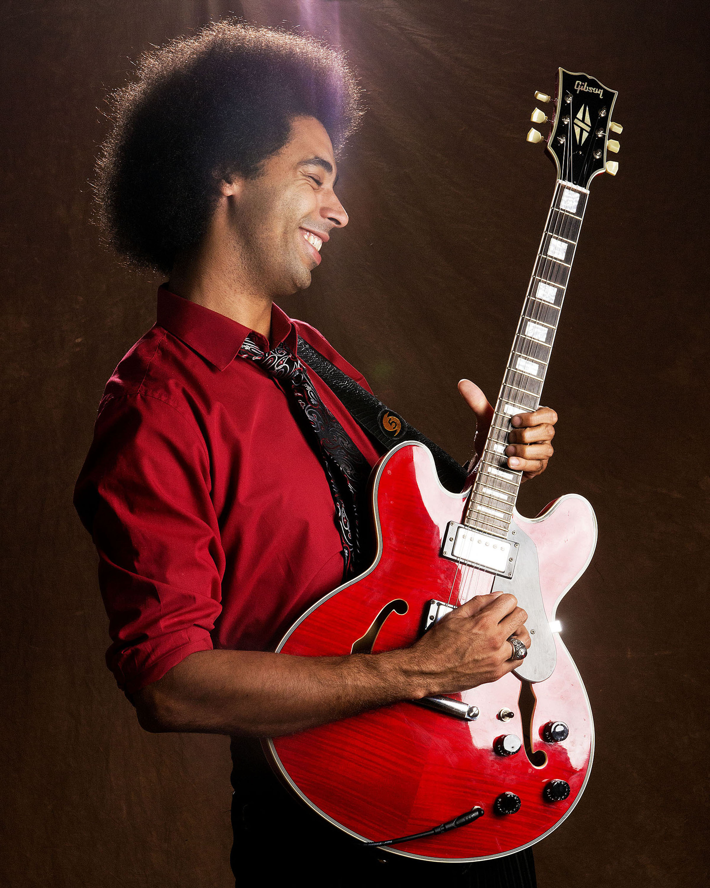 Official publicity shot for Selwyn Birchwood's Don't Call No Ambulance